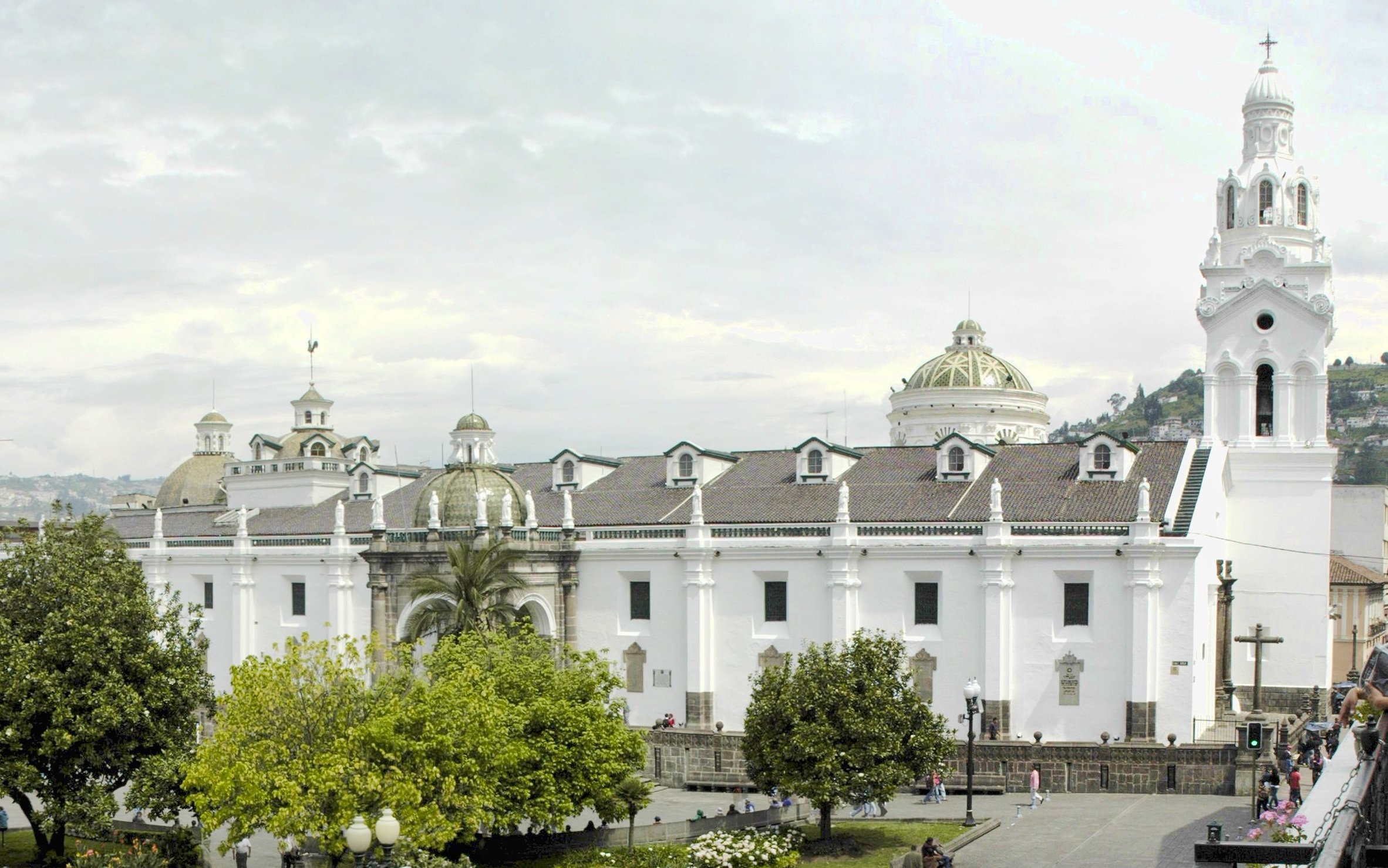 The Metropolitan Cathedral of Quito, Ecuador